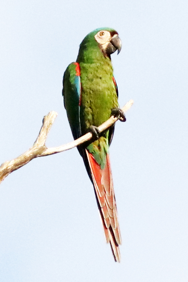 photo of a Chestnut-fronted Macaw taken at San Jorge Sumaco Balo near Loreto, Ecuador